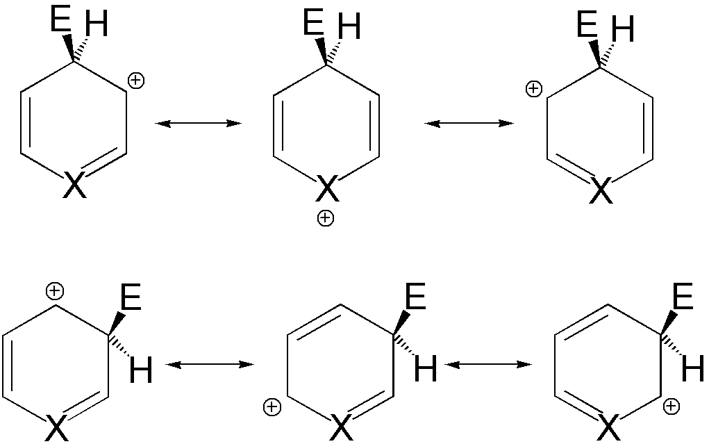 resonance structures of the electrophilic heteroaromatic substitution